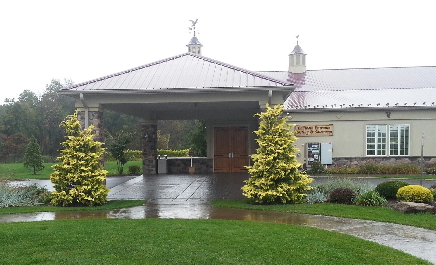 The main entrance to Valenzano Winery in Shamong, NJ. Many weddings and catered events are held at Valenzano Winery.